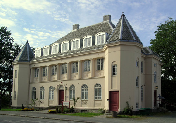 Artsdatabanken, Elvegata 17, Trondheim, Norway. Built 1917 as county councellor residence (stiftsamtmannsbolig). Architect: Olaf Nordhagen.